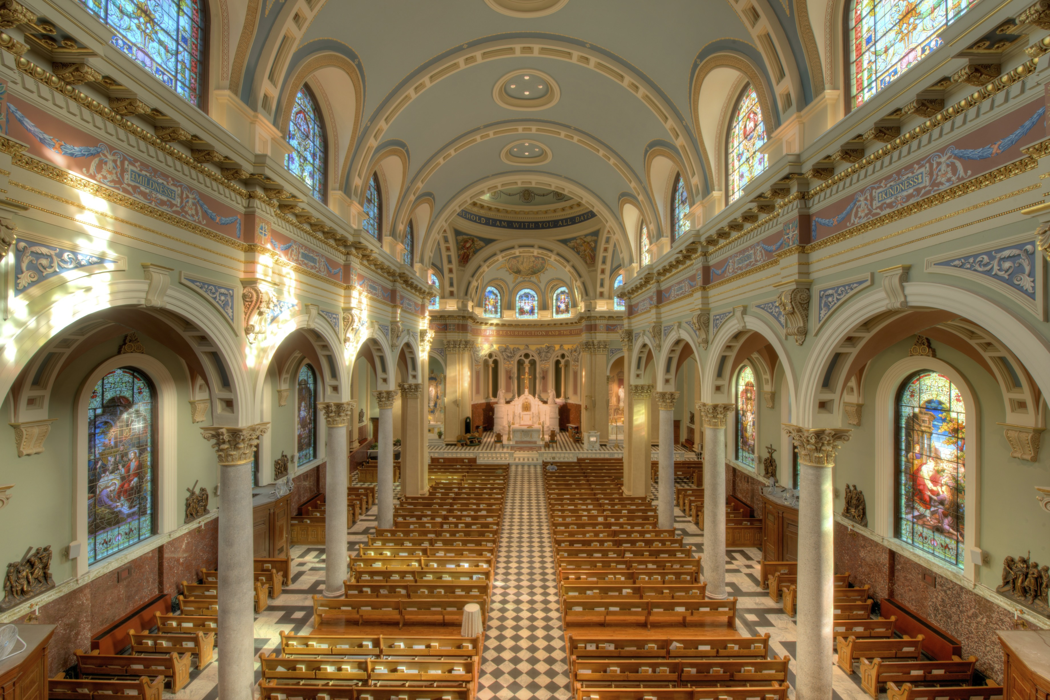 View from the Organ Gallery